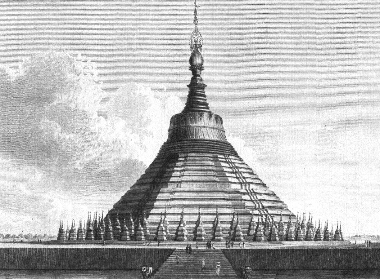 Shwemawdaw Pagoda, the Great Temple at Pegu (Bago).